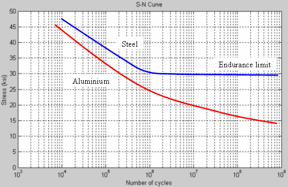 S-N Curve showing endurance limit